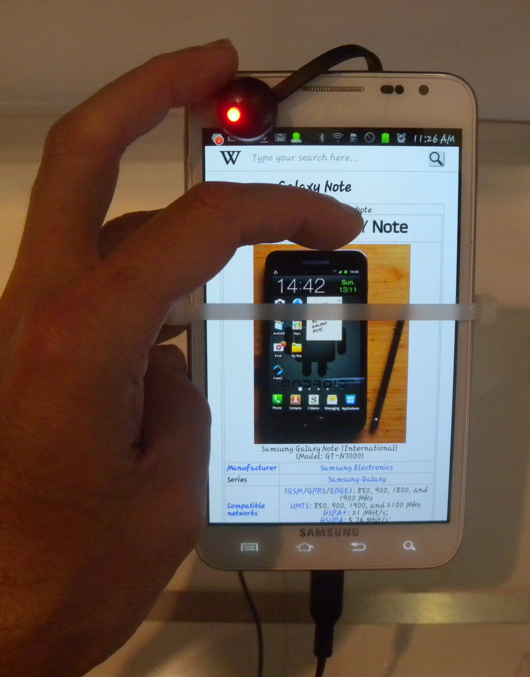 Galaxy note displaying own Wikipedia article.